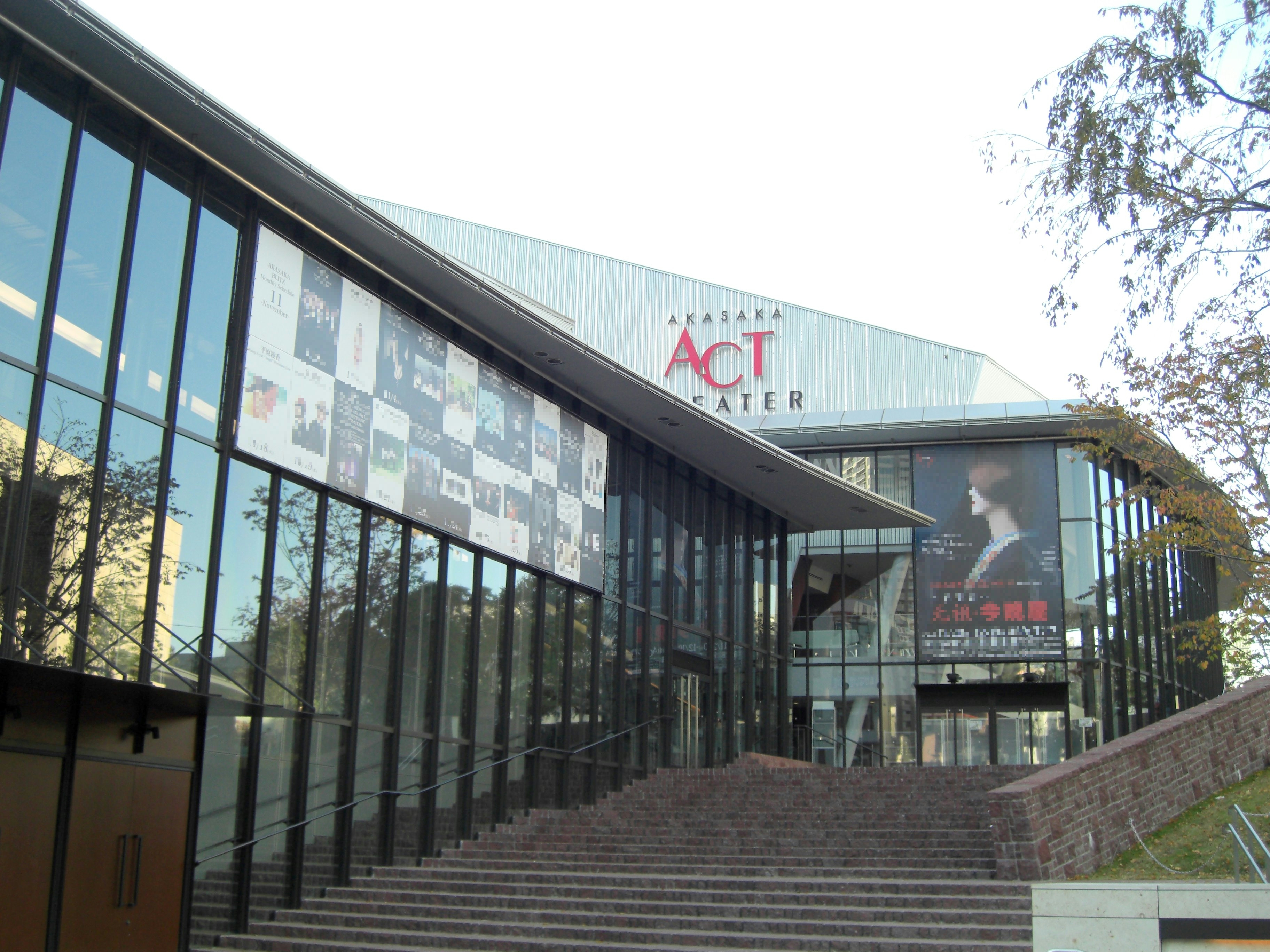 Akasaka ACT Theater